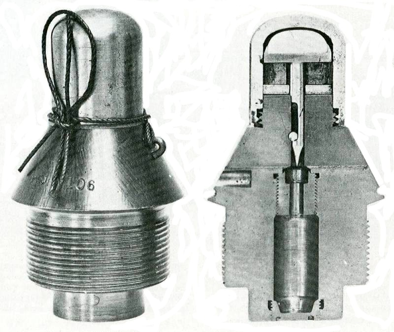 Photograph showing sectioned British No. 106 direct-action percussion fuze, World War I vintage. The introduction of this fuze, the first British "instant" impact fuze, early in 1917 provided the British army with a way to use high-explosive shells to blast away barbed wire without digging large holes - previous fuzes penetrated the ground before detonating. Fuze 106 would detonate the shell's explosive charge instantly on striking even strands of barbed wire, and hence all the explosive energy was released above ground. This also enabled the use of high-explosive shells against enemy troops above ground. This effectively made shrapnel shells obsolete in the British army. This is an early model. Later models incorporated a safety shutter. The safety cap over the head was unscrewed and removed before firing. Action : The hammer projecting from the head of the fuze is held apart from the fuze body by 2 steel split collars around the spindle, and hence the needle is held apart from the detonator within the fuze. A length of brass tape is wrapped around the collars, holding them in place. A small brass weight is on the outer end of this tape. On firing, the spin of the shell causes the centrifigal force of the weight on the end of the tape to fling it outwards, the spin unwinds the tape and frees the split collars. Centrifugal forces causes the split collars to spin out, leaving nothing between the hammer head and the fuze head. The fuze is now armed. On striking the ground or encountering even slight resistance such a strand of barbed wire. the hammer is forced down, the needle is driven onto the detonator inside the fuze, igniting the powder magazine and then the shell's explosive charge, without delay.